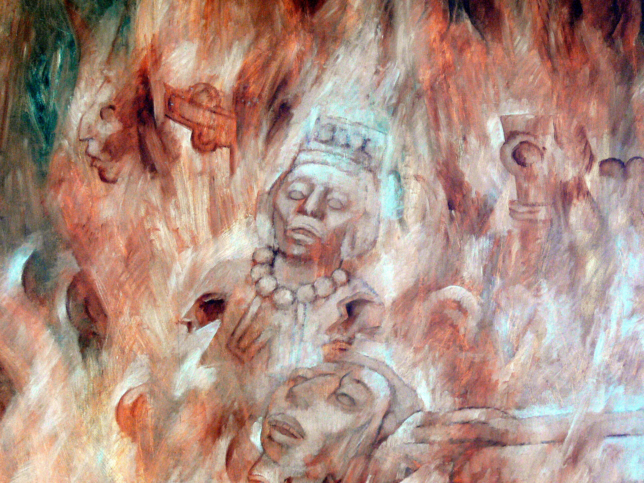 Merida - Palacio de Gobierno - Murals by Fernando Castro Pacheco: The Spanish bishop Diego de Landa is burning figures of Mayan deities ( detail )